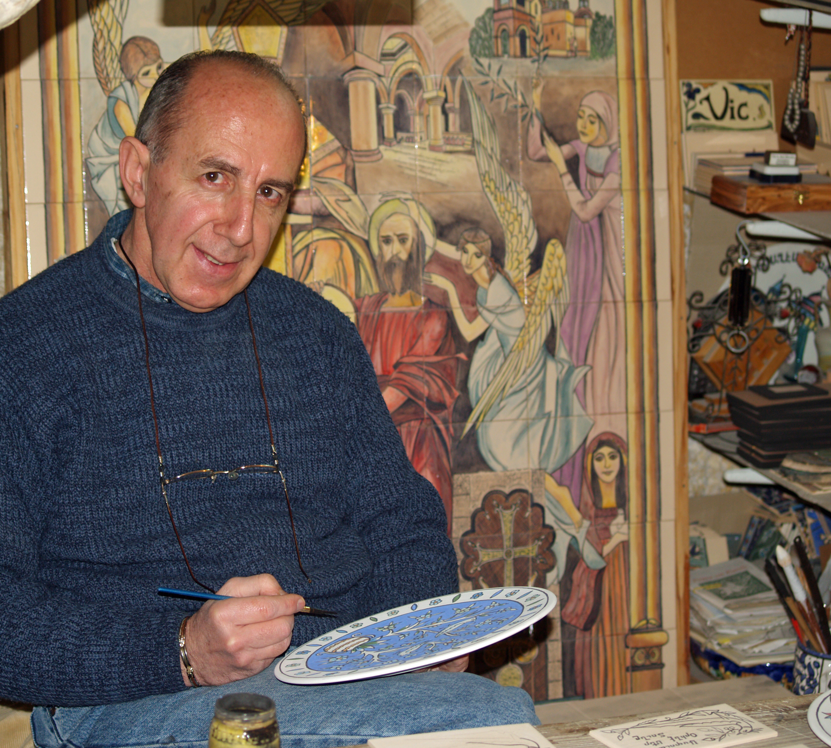 Vic Lepejian, a well-known Armenian ceramicist in the Old City of Jerusalem in Israel.